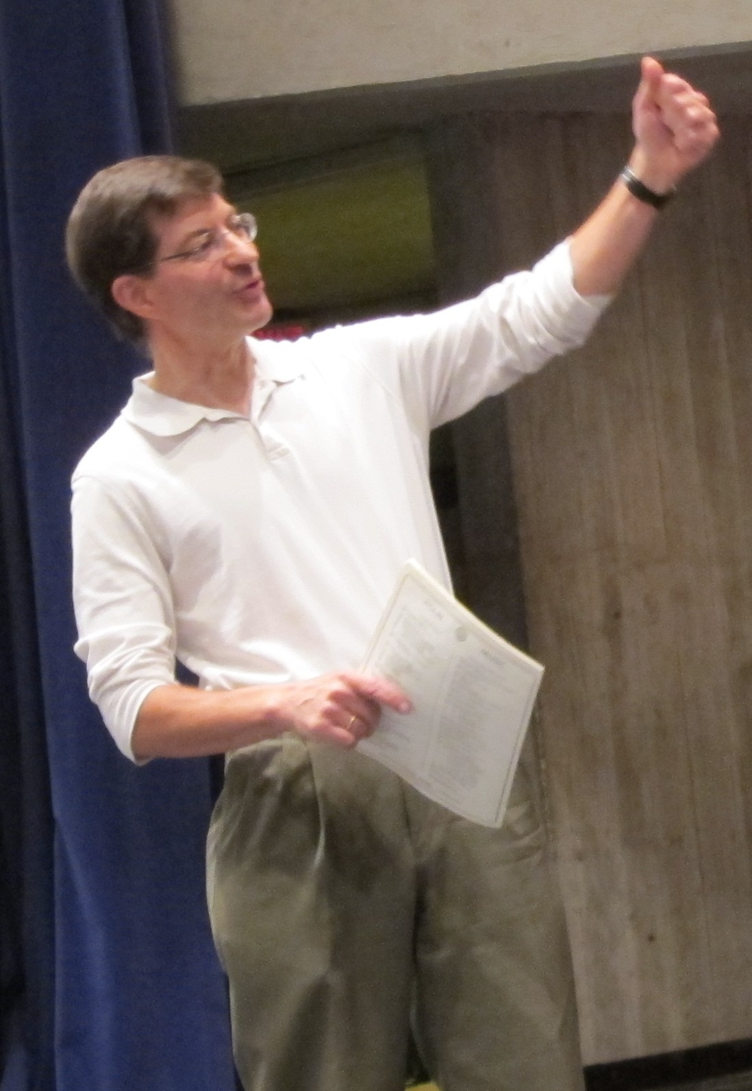 This picture was taken by me.